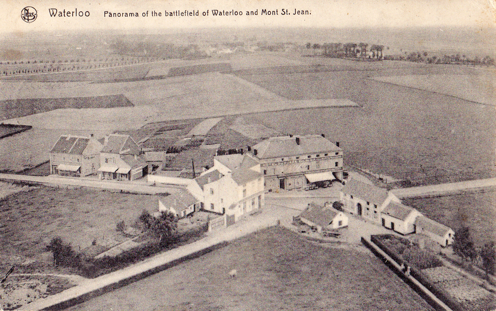 Waterloo. Panorama of the "Hamlet of the Lion" taken from the Lion's Mound. In the backround : the Mont Saint-Jean crossroad and (on the right hand) the 'Ferme de Mont Saint-Jean'. Postcard stamped on the 14th January 1919 in Waterloo. Publisher: Ern. Thill, Bruxelles. NELS.